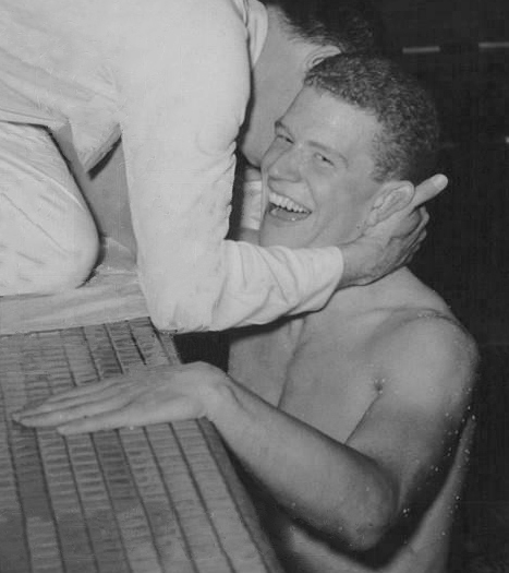 Coach Charles McCaffree hugs Clarke Scholes after he won a 100 yd race with a time 49.8 s.